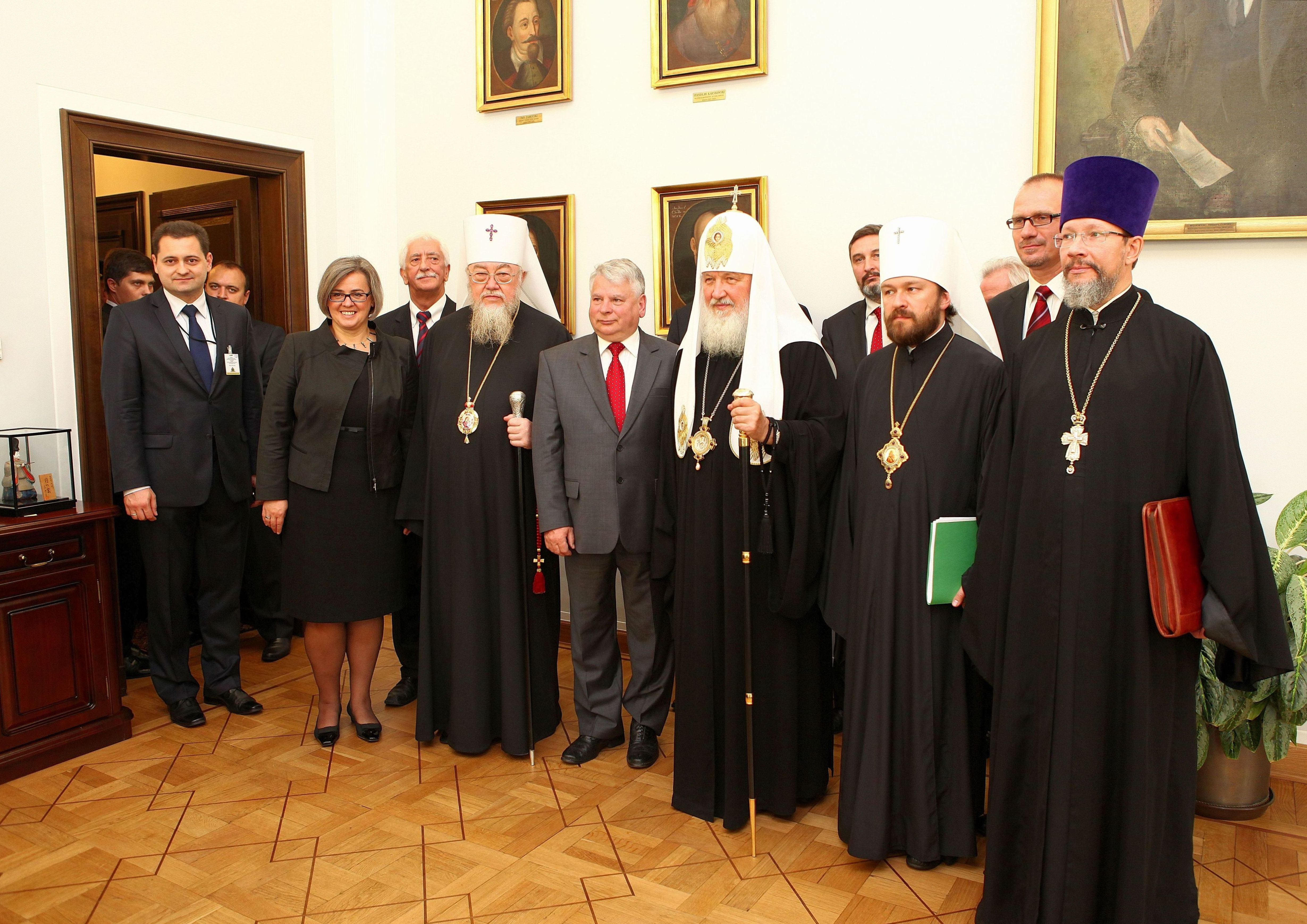 Metropolitan Sawa, Patriarch Kirill I and Marshal of the Senate Bogdan Borusewicz in the Polish Senate